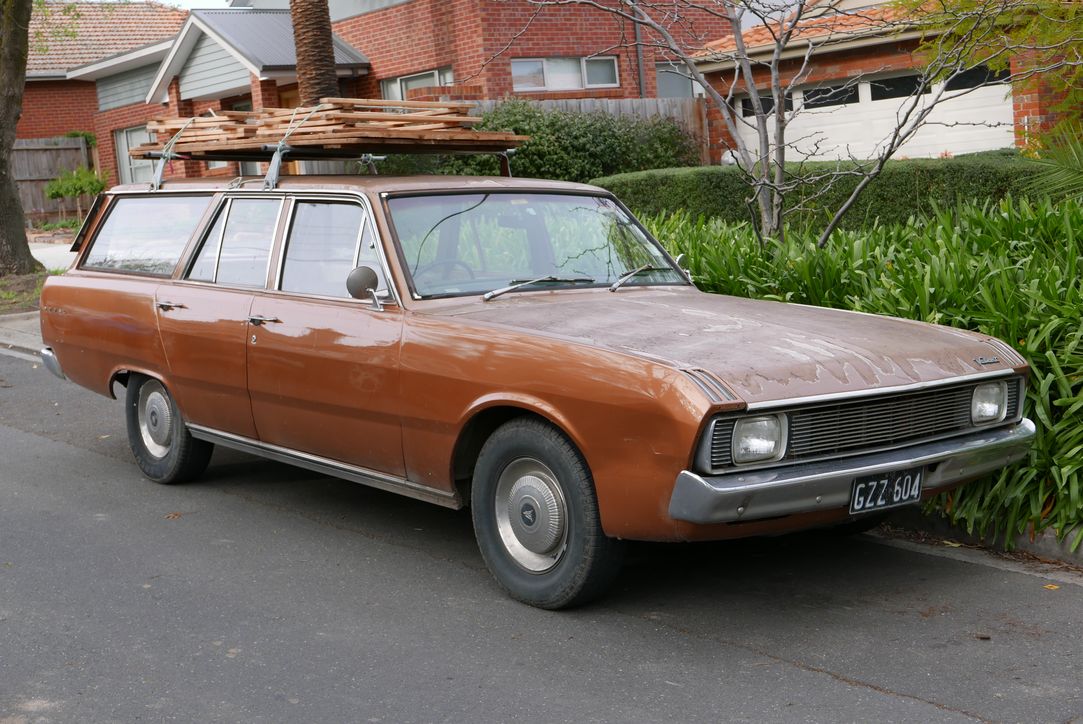 1971 Chrysler Valiant (VG) Regal Safari station wagon. Photographed in Ivanhoe, Victoria, Australia. Vehicle registration enquiry results Jurisdiction Victoria Registration GZZ604 Chassis code V961875P Engine code D223K05736 Compliance date 1971-02 Year of manufacture 1971